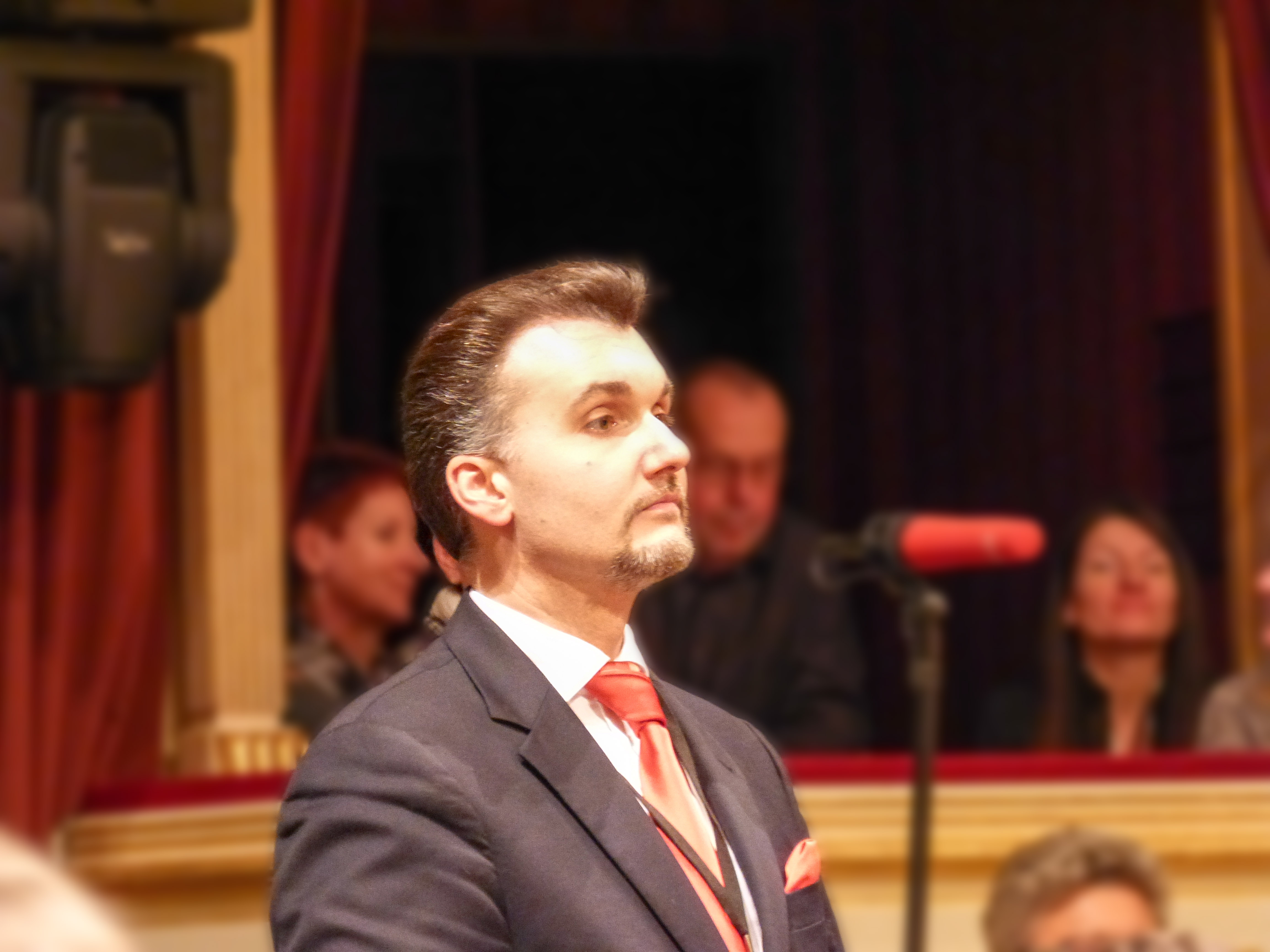 Roman E. Svabek photographed during the final rehearsal for the 59th Vienna Opera Ball.